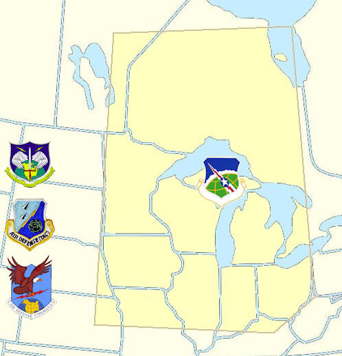 23d Air Division/NORAD Region 1969-1990